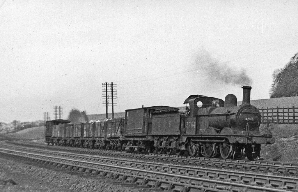 An ancient Midland engine on a local goods train near Chiltern Green. View northward, towards Luton, Bedford and the North; ex-Midland Main Line, St Pancras - Sheffield. The train is on the Up Slow, headed by ex-Midland 2F 0-6-0 No. 3764 - still with LMS number over two years after Nationalisation.